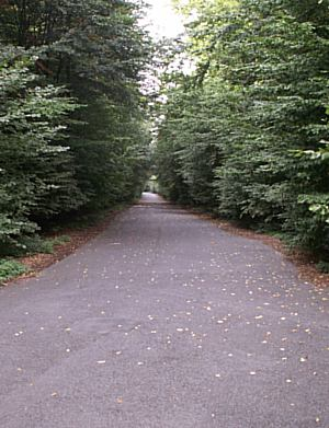 Remainigs of racing circuit Nürburgring-Südschleife, Eifel, Germany. View from "Scharfer Kopf" (50° 19' 47" N, 6° 56' 2" E) direction SW.